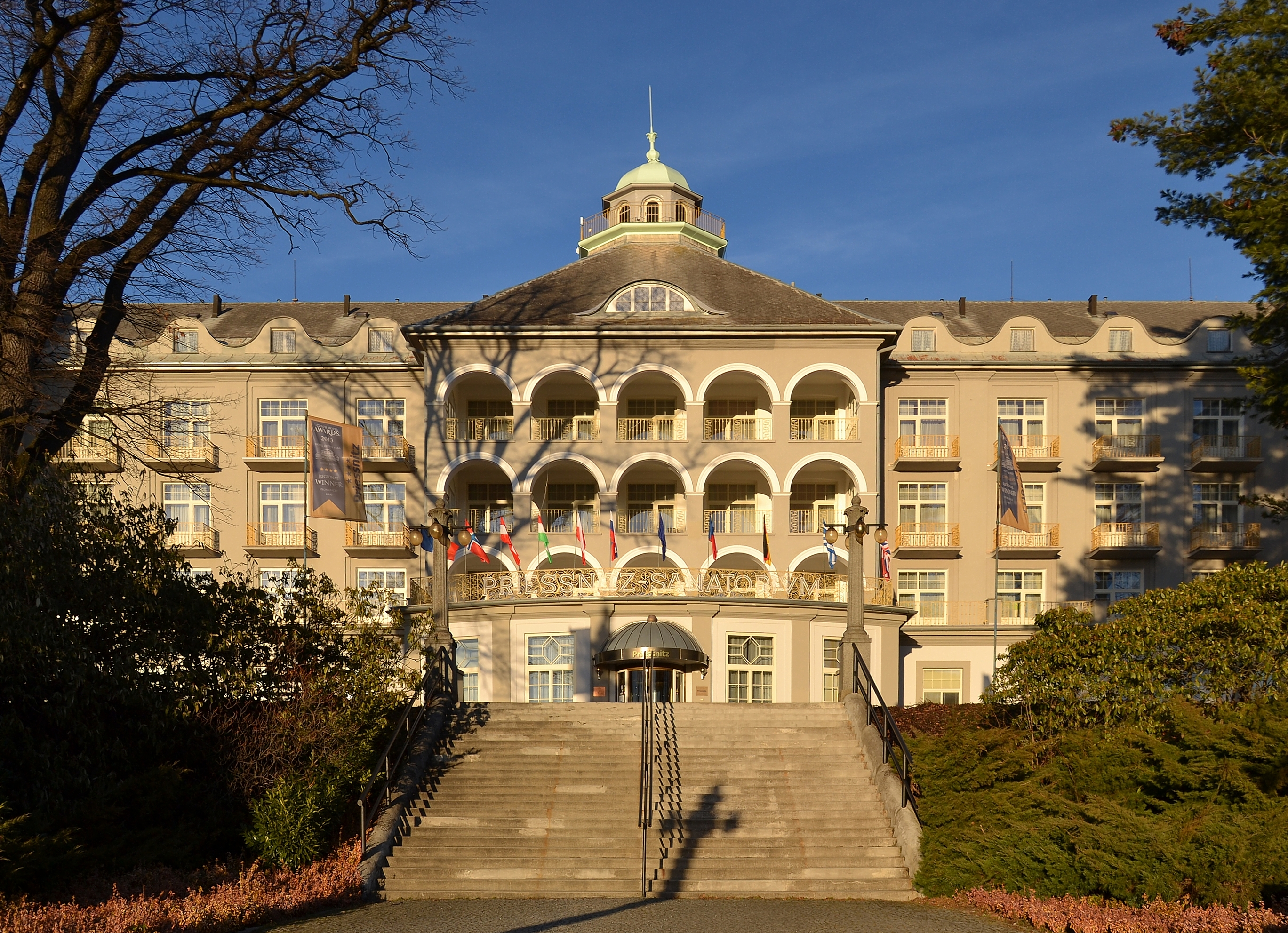 Lázně Jeseník (Bad Gräfenberg) - Hotel Priessnitz